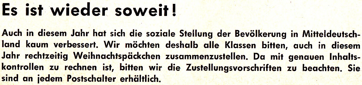 Promotion in a West-German students newspaper for a donation of materials meant for the people in the German Democratic Republic.